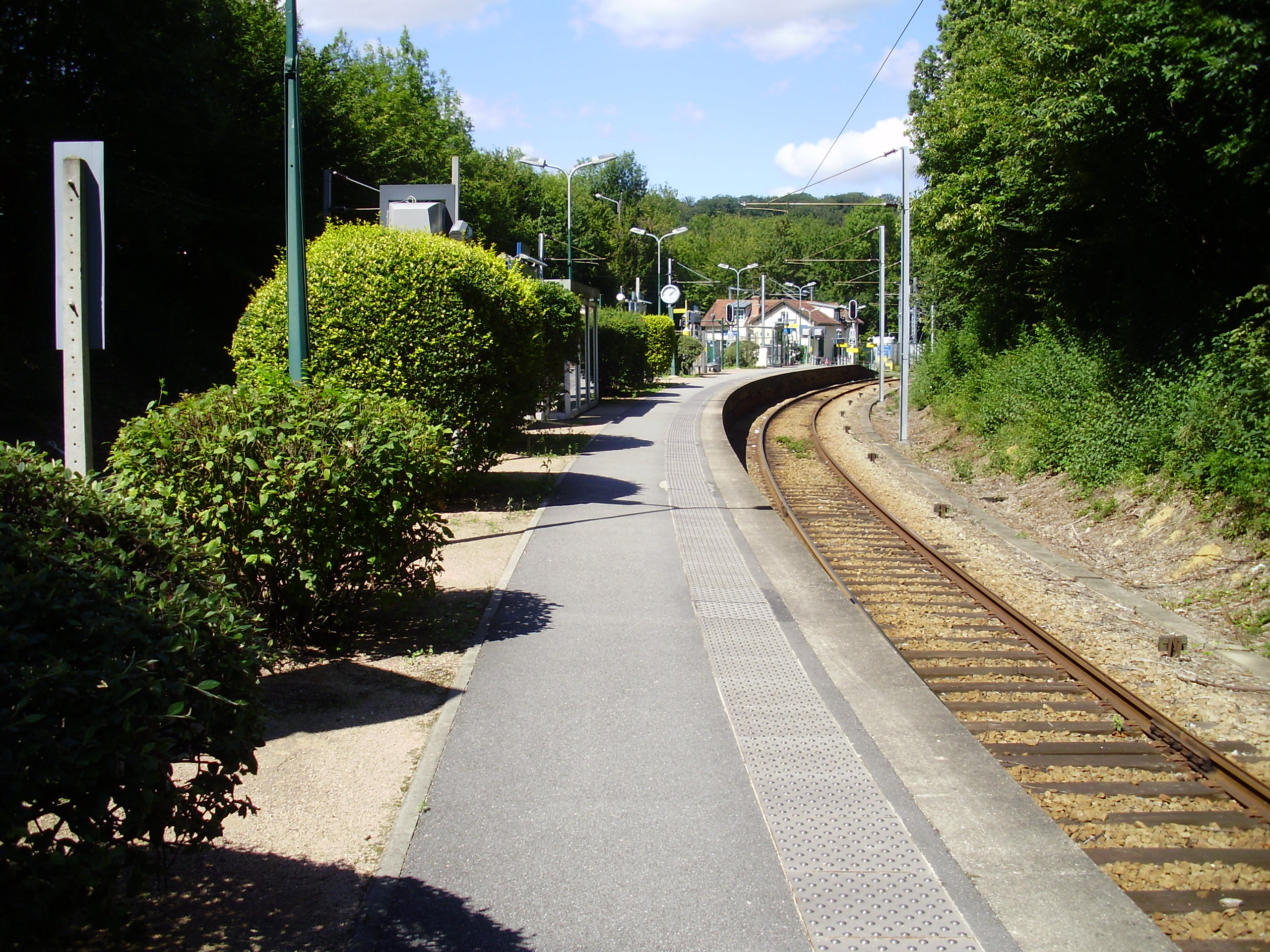 Saint-Nom-la-Bretèche - Forêt de Marly station, in L'Étang-la-Ville, Yvelines, France (view of the central platform of the line L, with in the background, the station building)